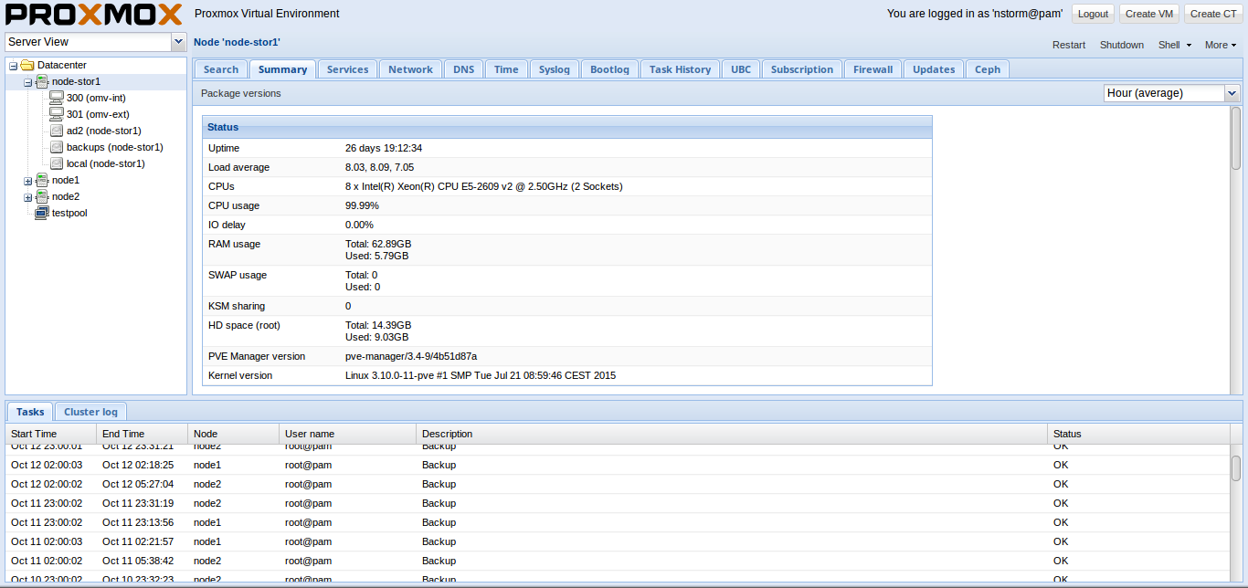 Proxmox VE 3.4 administration interface screenshot